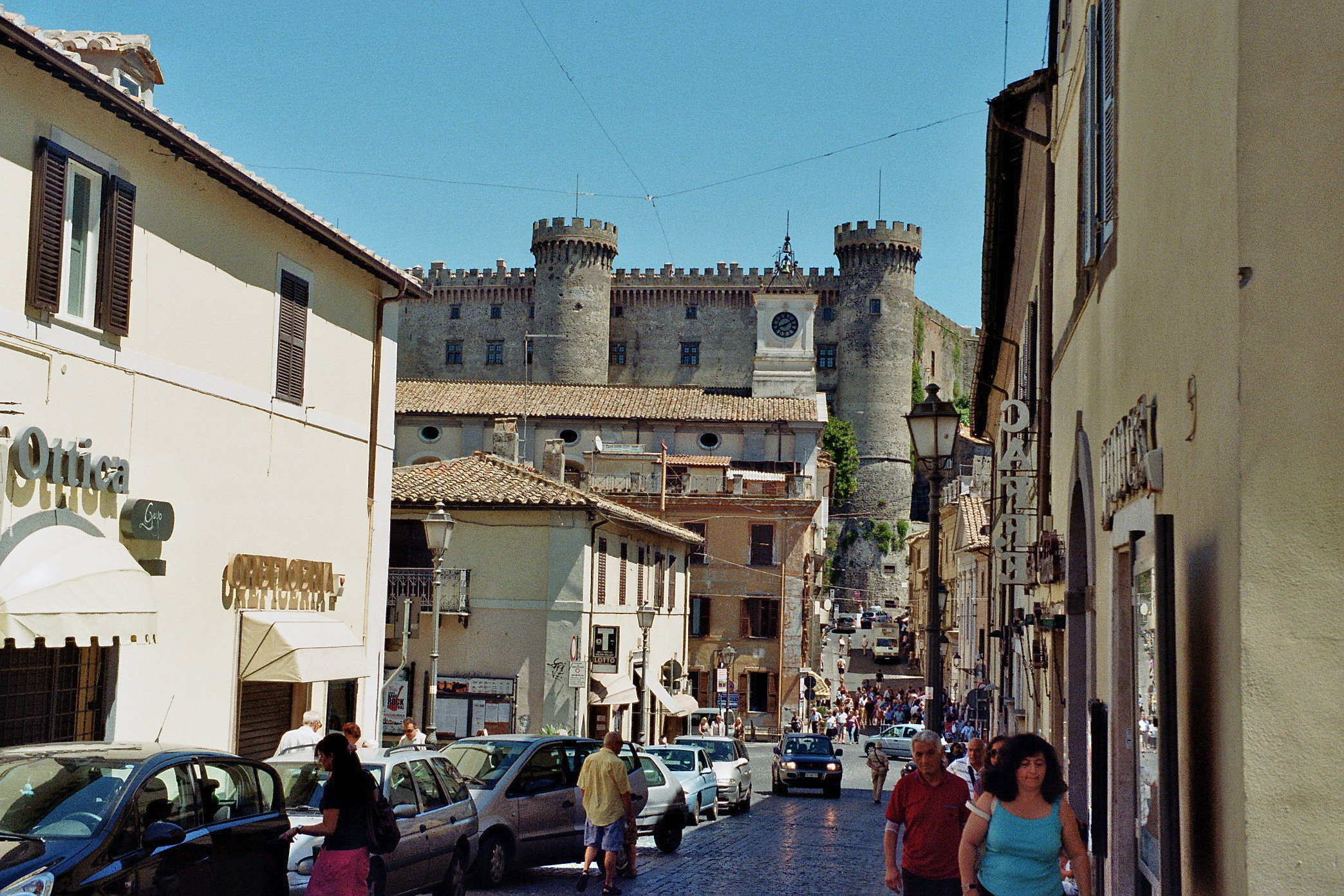 Bracciano, castle and city view